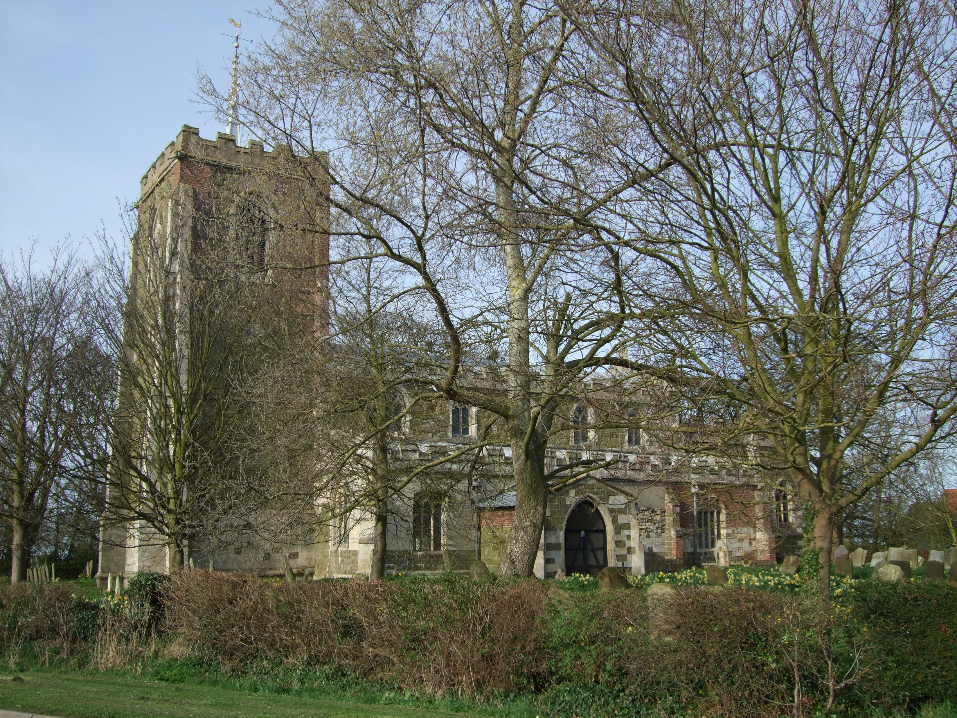 All Saints Church Theddlethorpe All Saints, near to Theddlethorpe All Saints, Lincolnshire, Great Britain. Sometimes called �the Cathedral of the Marsh�; All Saints� is long and light with little stained glass. There is little parking as it is on a sharp bend on typical Lincolnshire country roads - plenty of bends and narrow lanes . TF4688 : All Saints Church Theddlethorpe All Saints